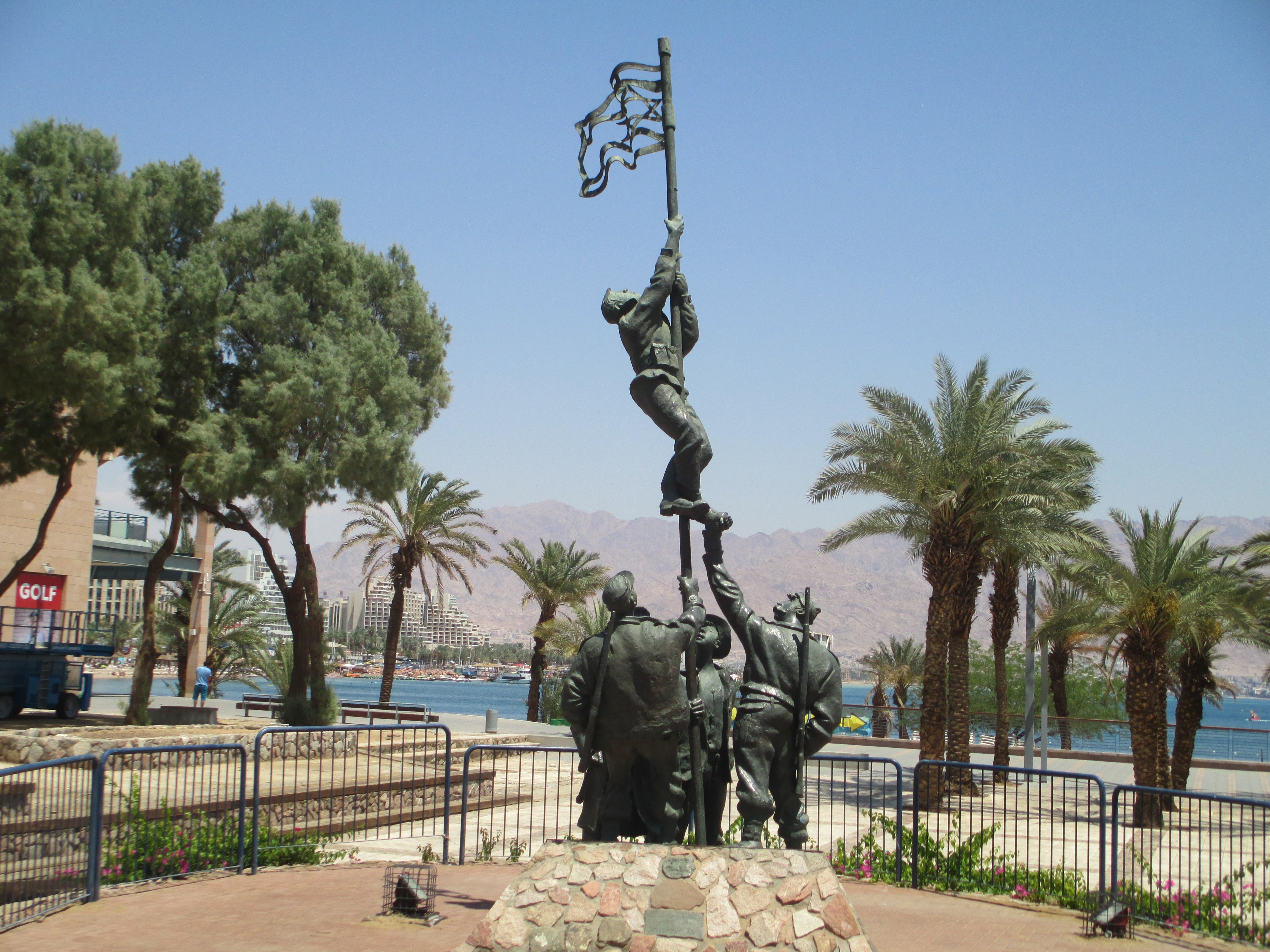 Um Rashrash site in Eilat